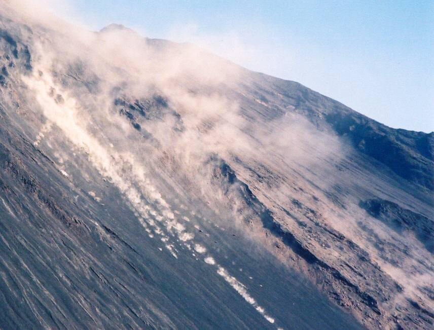 Sciara del fuoco, Stromboli, picture by Tim Bekaert (8/2003)